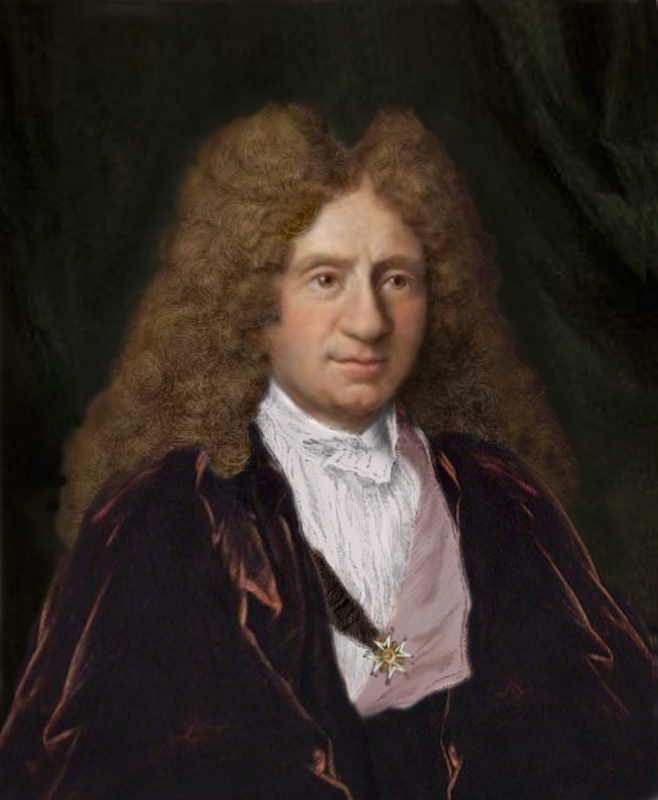 Delalande is portrayed wearing the order of Saint-Michel, which he received in 1722, but his features appear much as they were two decades earlier.